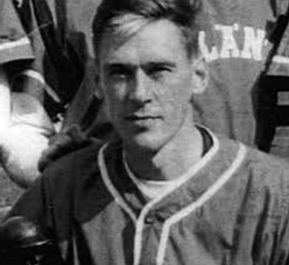 Finnish pesäpallo player and teacher Jussi Kiikeri 1933–2019